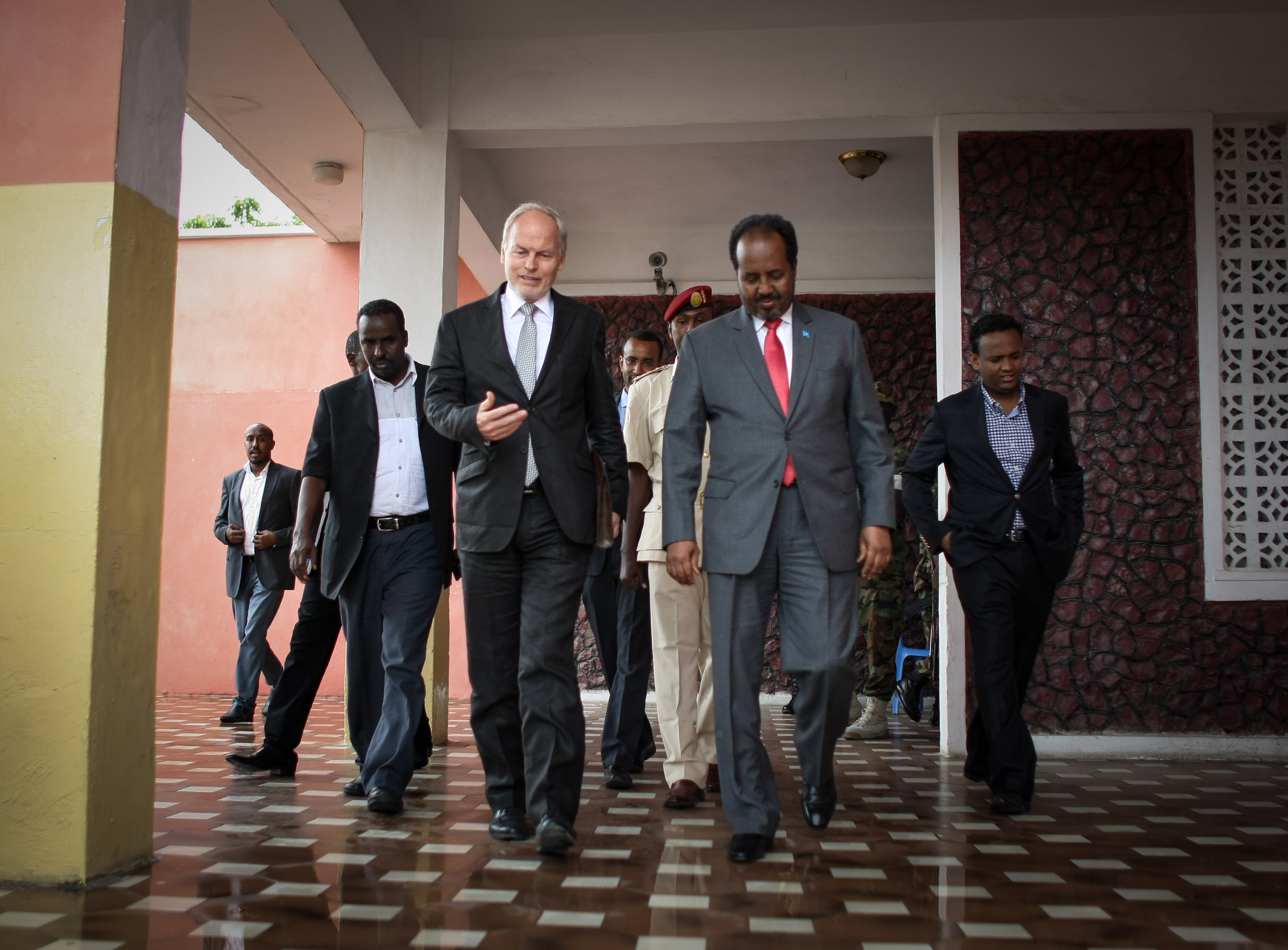 Special Representative of the Secretary-General (SRSG) for Somalia, Nicholas Kay, walks with Somali President Hassan Sheikh Mohamud at his presidential offices at Villa Somalia, the complex in central Mogadishu that houses the Federal Government of Somalia, 08 June 2013. The head of the new United Nations Assistance Mission in Somalia (UNSOM) Kay, called for an immediate end to fighting in Somalia's southern port city of Kismayo, urging all parties to commit to resolve differences peacefully. AU-UN IST PHOTO / STUART PRICE.